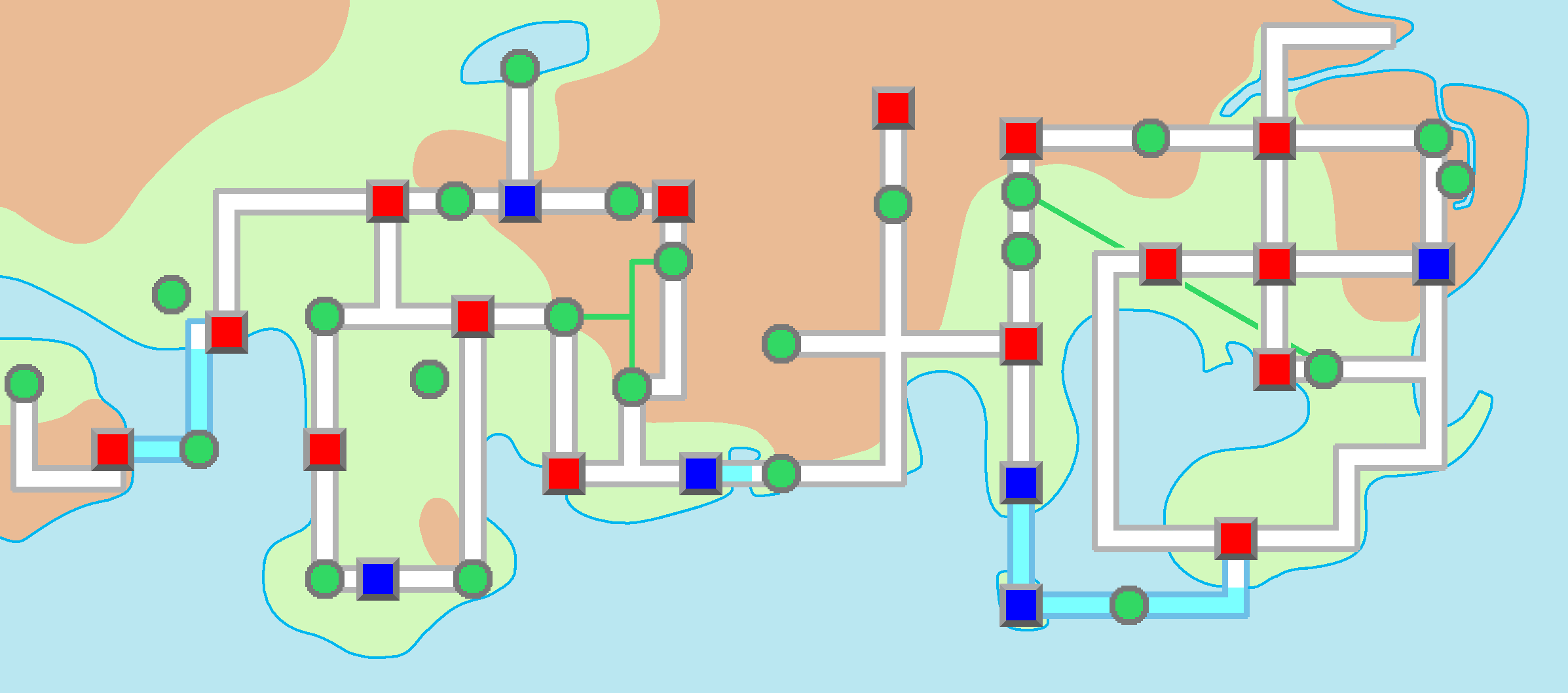 A blank map of Kanto and Johto, fictitious regions in Pokemon